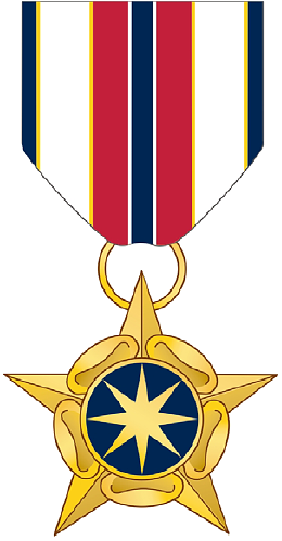 The American Intelligence Community Medal for Valor. It was renamed in 2009 as the National Intelligence Medal for Valor.